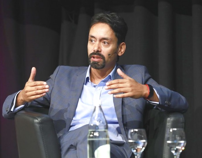 Kishor Sridhar - German Author and Management Consultant